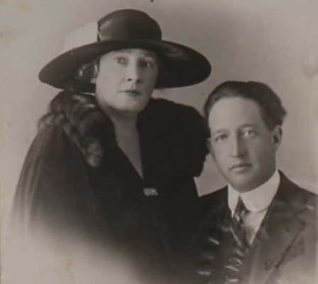 Passport photograph taken on 23 February 1923 of professional golfer Macdonald Smith and his wife Louise.